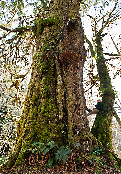 The San Juan Spruce, Canada's largest Sitka Spruce tree, grows along the San Juan River approximately 15km east of Port Renfrew. It is 62 m tall 3.6 m in diameter, and with a volume of 333 cubic metres.